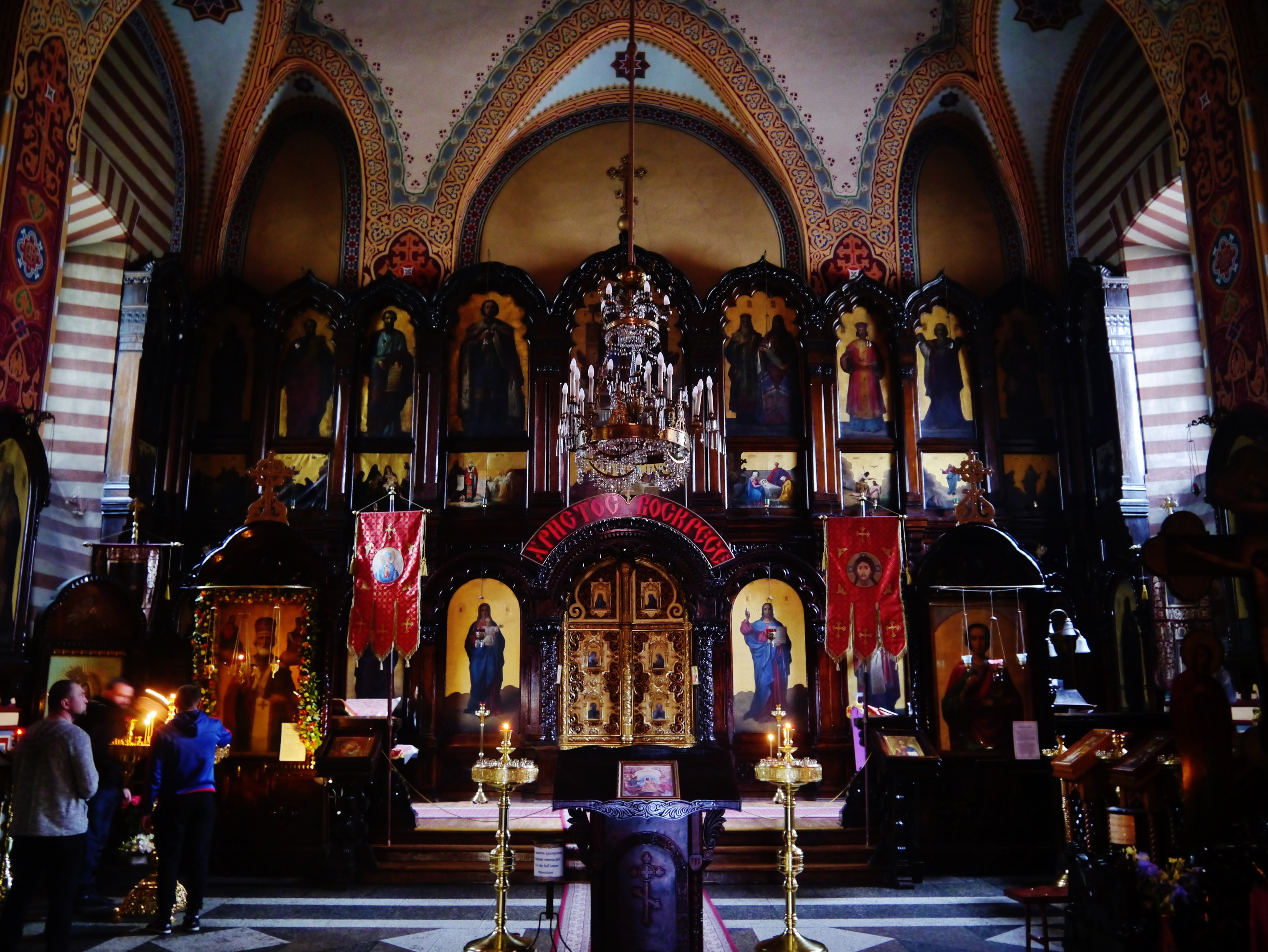 Iconostasis of the Orthodox Cathedral of St. Nicholas, Vilnius, Lithuania